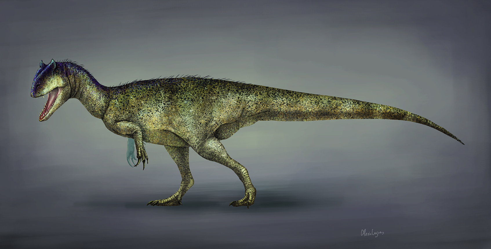 Saurophaganax restoration 2019 by Mario Lanzas